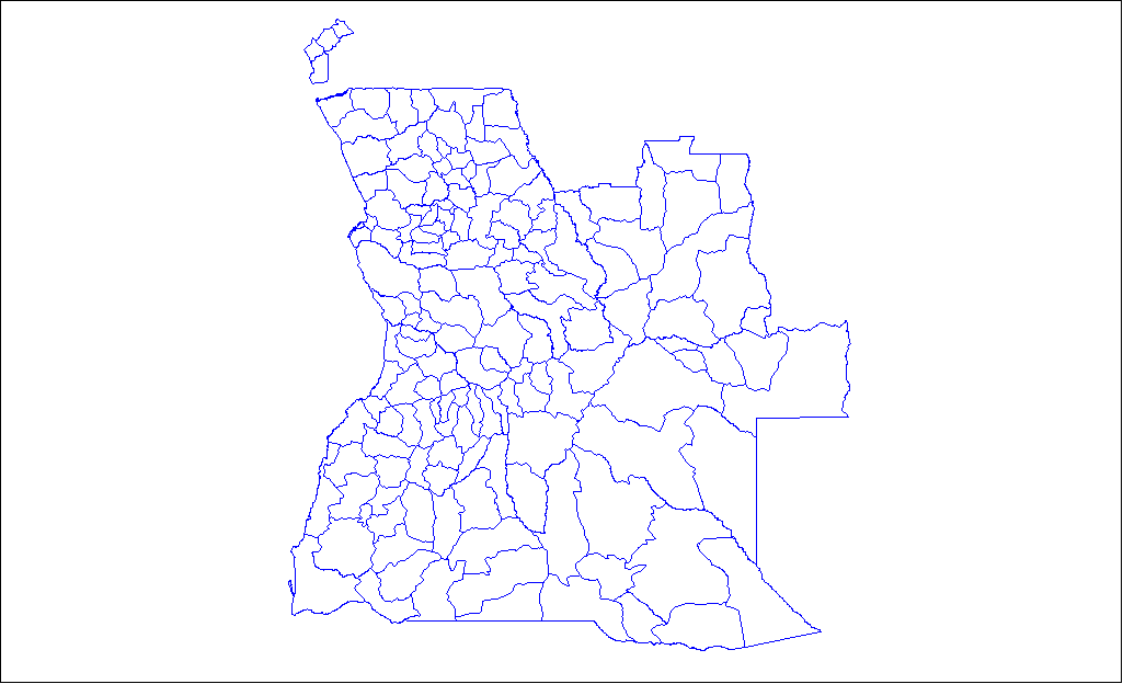 This map has been uploaded by Electionworld from to enable the Wikimedia Atlas of the World . Original uploader to was Rarelibra, known as Rarelibra at . Electionworld is not the creator of this map. Licensing information is below. Map of the municipalities of Angola. Created by Rarelibra 18:06, 31 March 2006 (UTC) for public domain use. Created using MapInfo Professional v7.5 and various mapping resources.